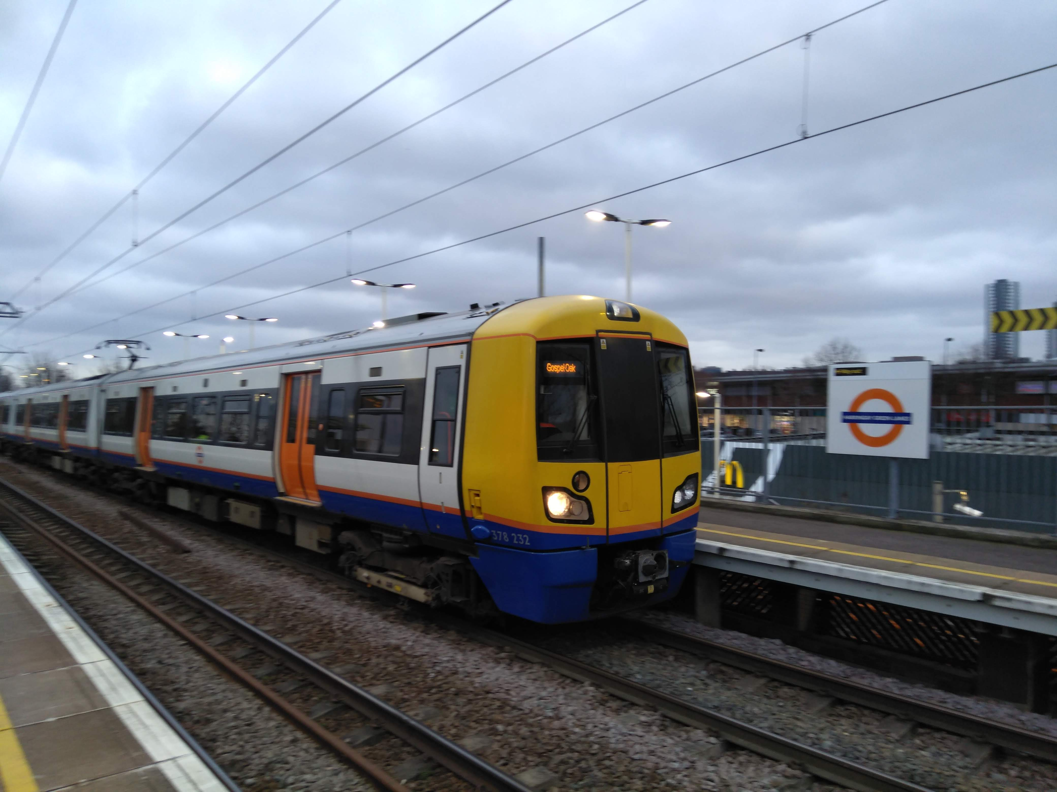 London Overground unit 378 232 at Harringay Green Lanes station on the Gospel Oak to Barking line